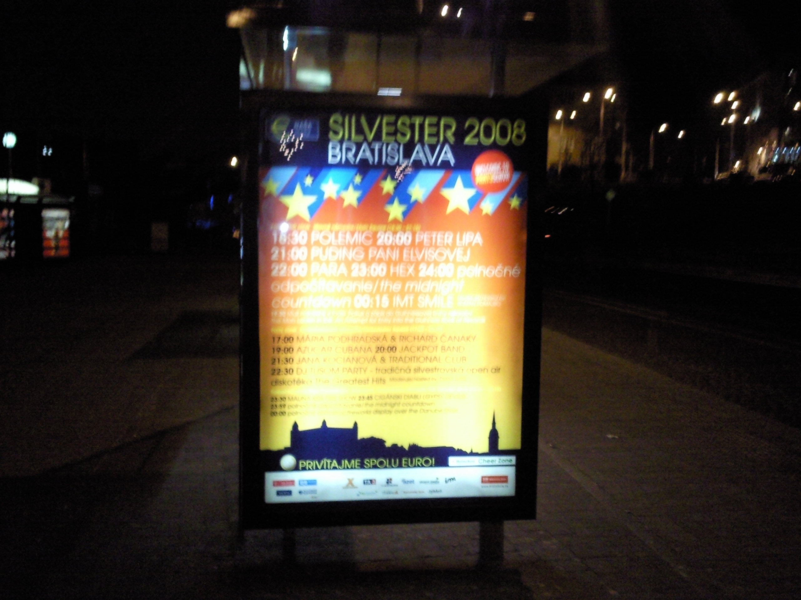 New Year's Eve 2008 in Bratislava, Slovakia